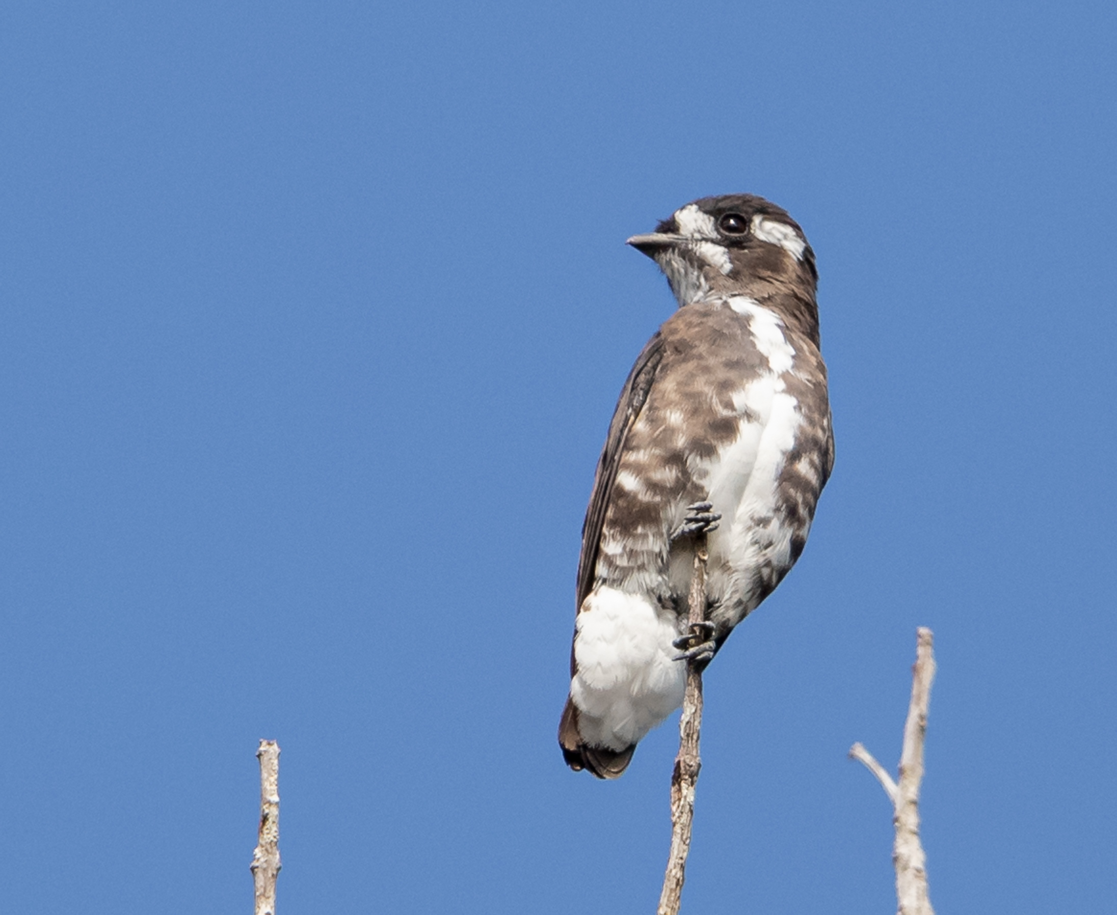 White-bellied purpletuft (female); Beruri, Amazonas, Brazil